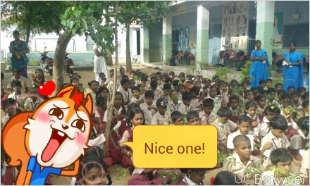 Panchayat union primary school uthukuli tirupur dt